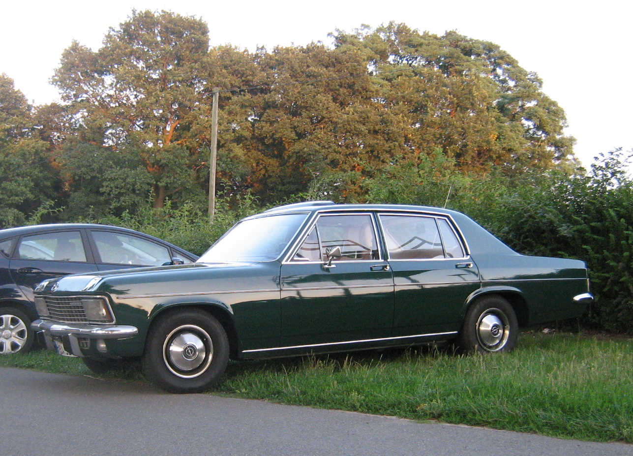 Opel Admiral B in dark green parking in the back of the Bender house in Rodewald, Lower Saxony